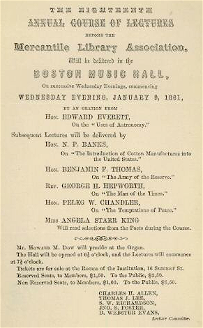 The eighteenth annual course of lectures before the Mercantile Library Association will be delivered in the Boston Music Hall, on successive Wednesday evenings, commencing Wednesday evening, January 9, 1861 ...